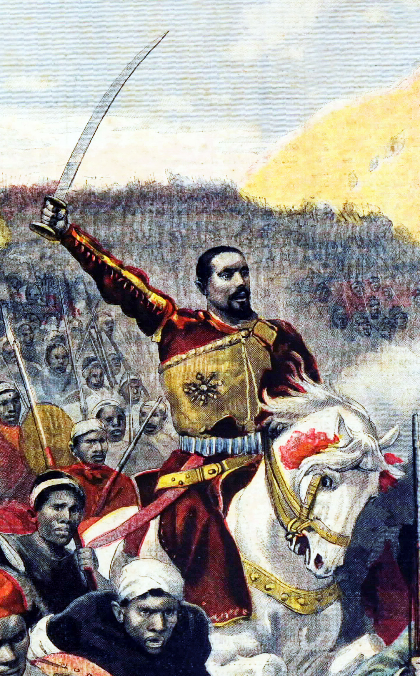 Ras Mekonnen at the Battle of Amba Alage - detail